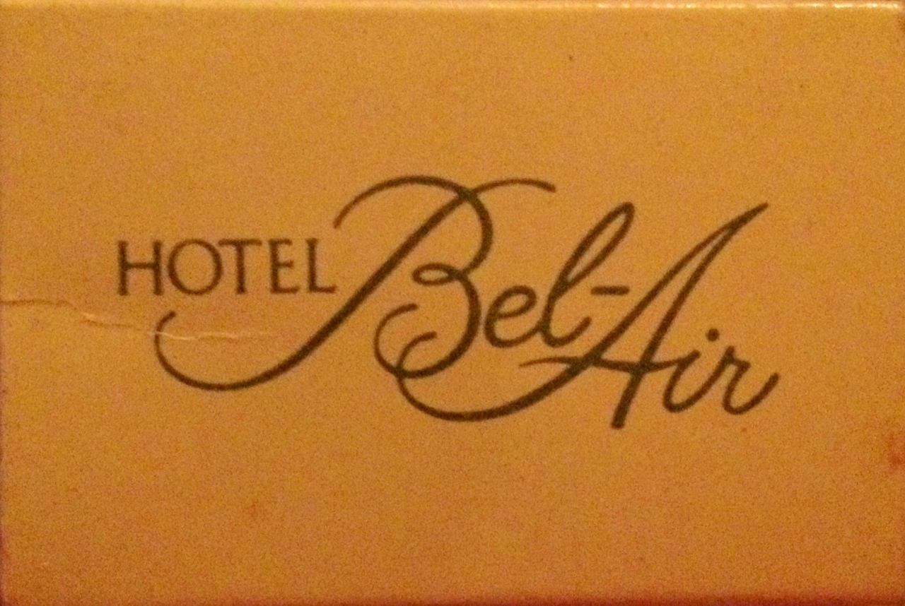 Hotel Bel-Air matchbook circa 1990